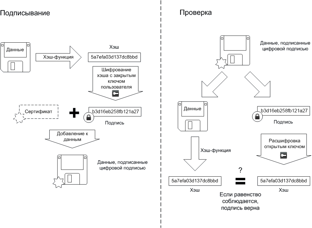 Diagram illustrating how a simple digital signature is applied and verified.